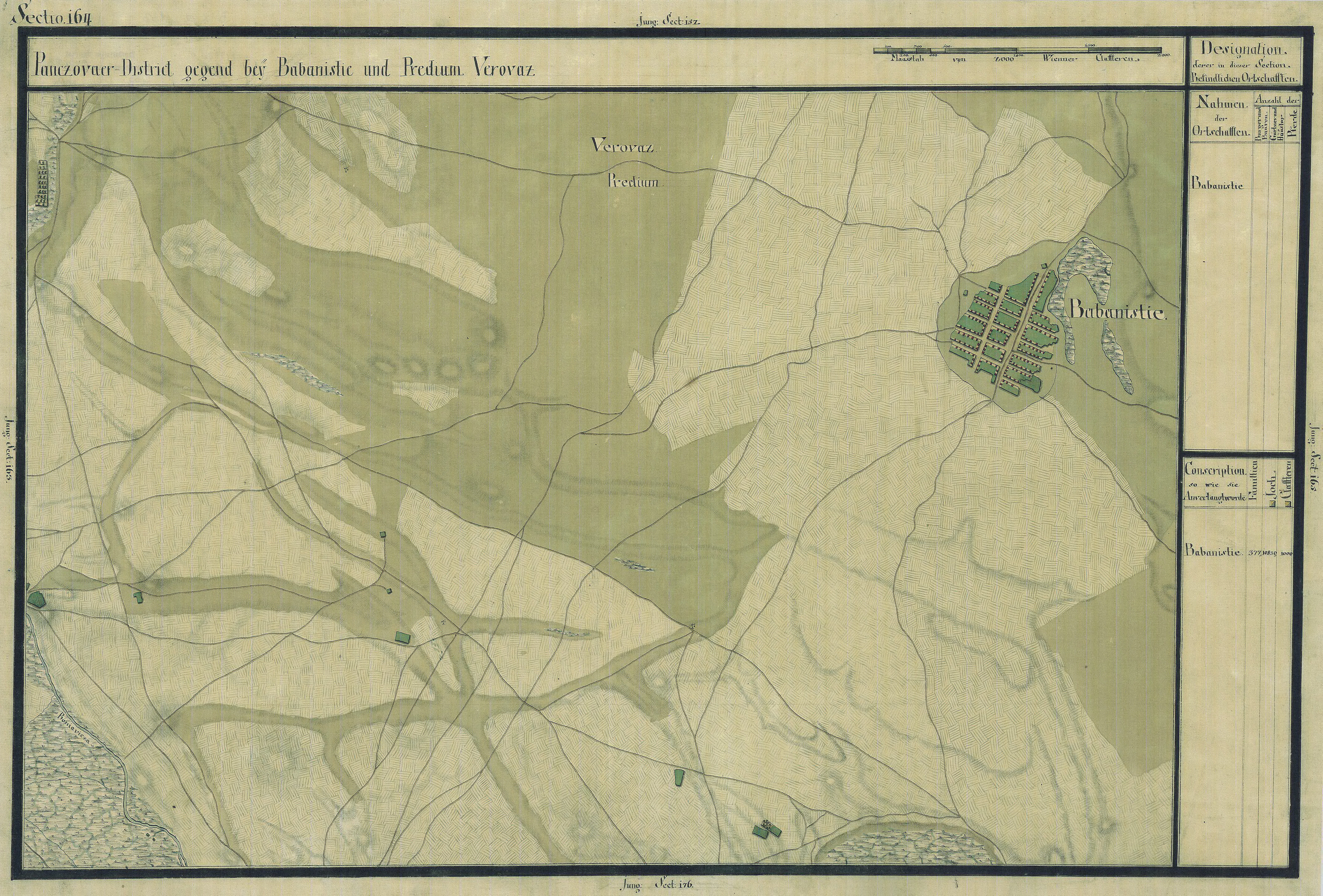 The Banat region in the cadastral maps: Josephinische Landesaufnahme, 1769-72. Josephinische Landaufnahme pg164